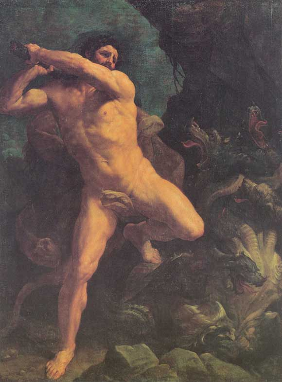 Heracles and the Hydra, Guido Reni, 1620